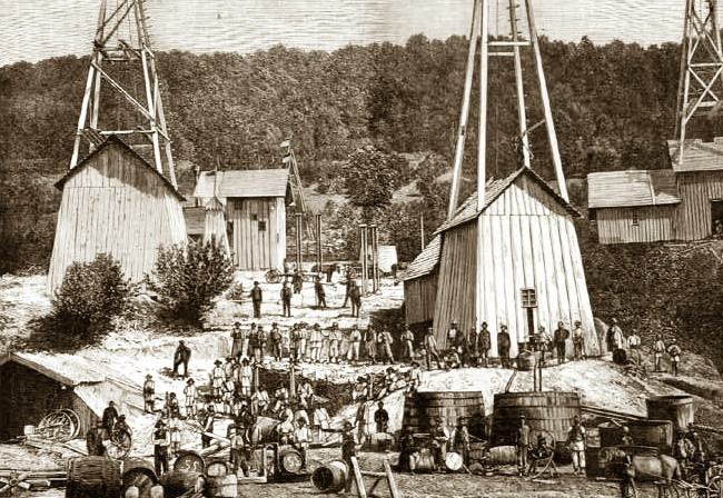 postcard, galicia 1881